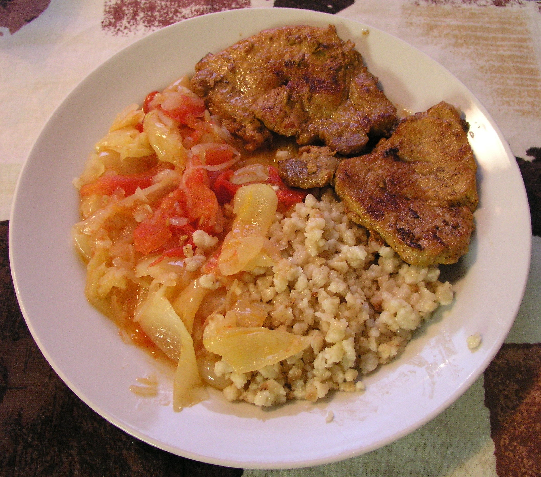 A Hungarian dish with Lecsó (vegetable stew), home-made Tarhonya (Hungarian type of pasta) and cutlet